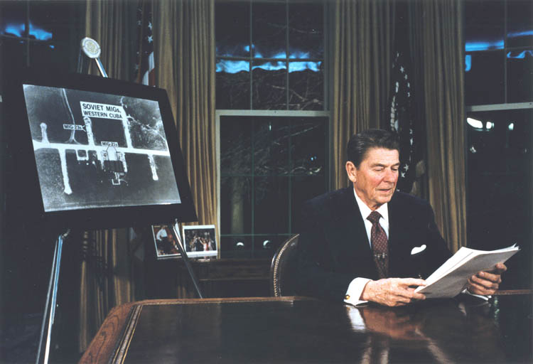 President Reagan Addresses the Nation from the oval office on National Security (Strategic Defense Initiative speech) March 23, 1983.